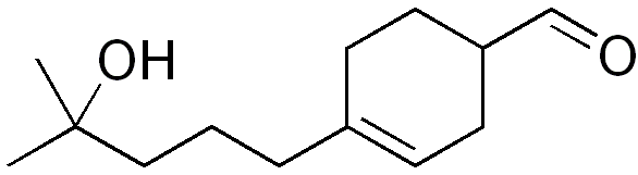 chemical structure of lyral (4-(4-hydroxy-4-methylpentyl)-1-cyclohex-3-enecarboxaldehyde)